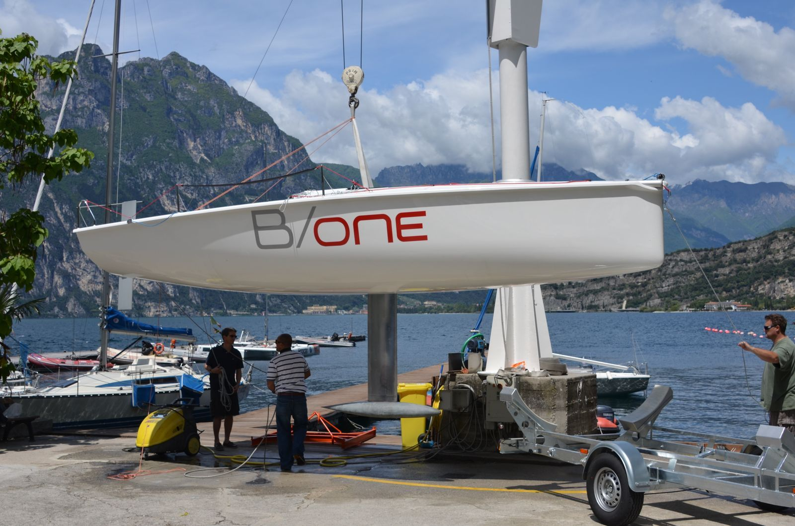 Bavaria B/One hauled out